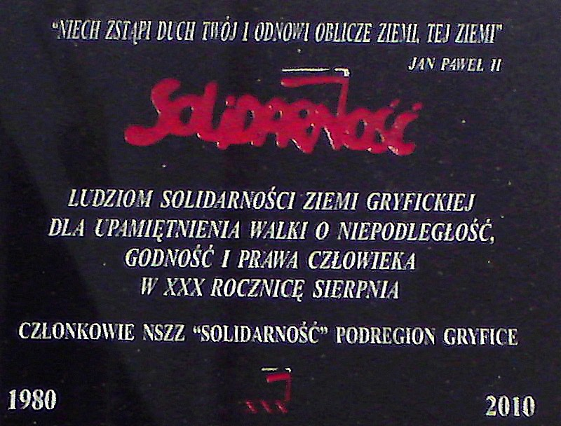 The board of memory the "Men of "Solidarity"" in Gryfice (Poland)